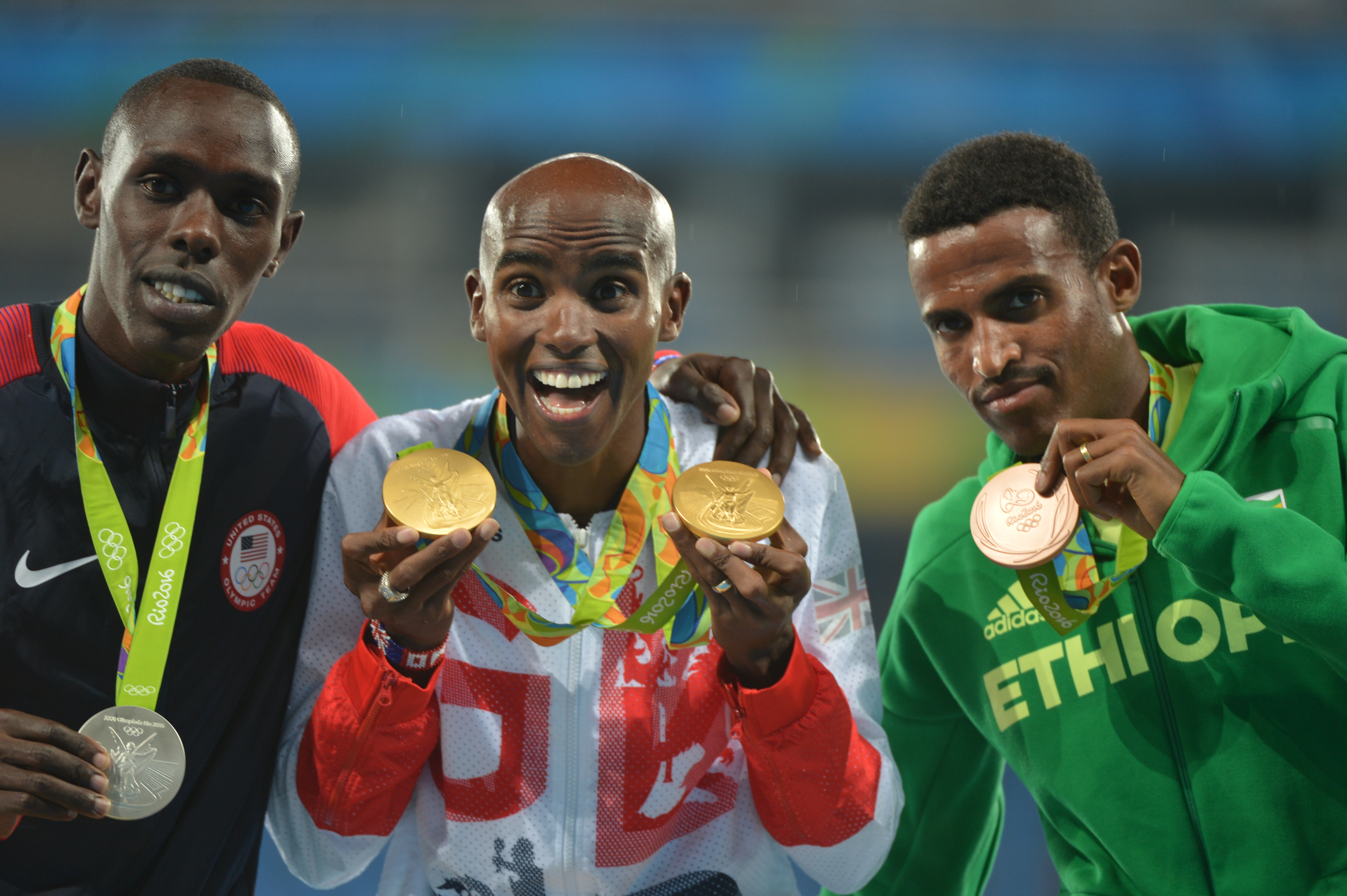 A scene from the Rio Olympic Games men's 5,000-meter run medal ceremony for silver medalist Spc. Paul Chelimo of the U.S. Army World Class Athlete Program, gold medalist Mo Farah of Great Britain and bronze medalist Hagos Gebrhiwet of Ethiopia on Aug. 20 at Olympic Stadium in Rio de Janeiro. U.S. Army photo by Tim Hipps, IMCOM Public Affairs